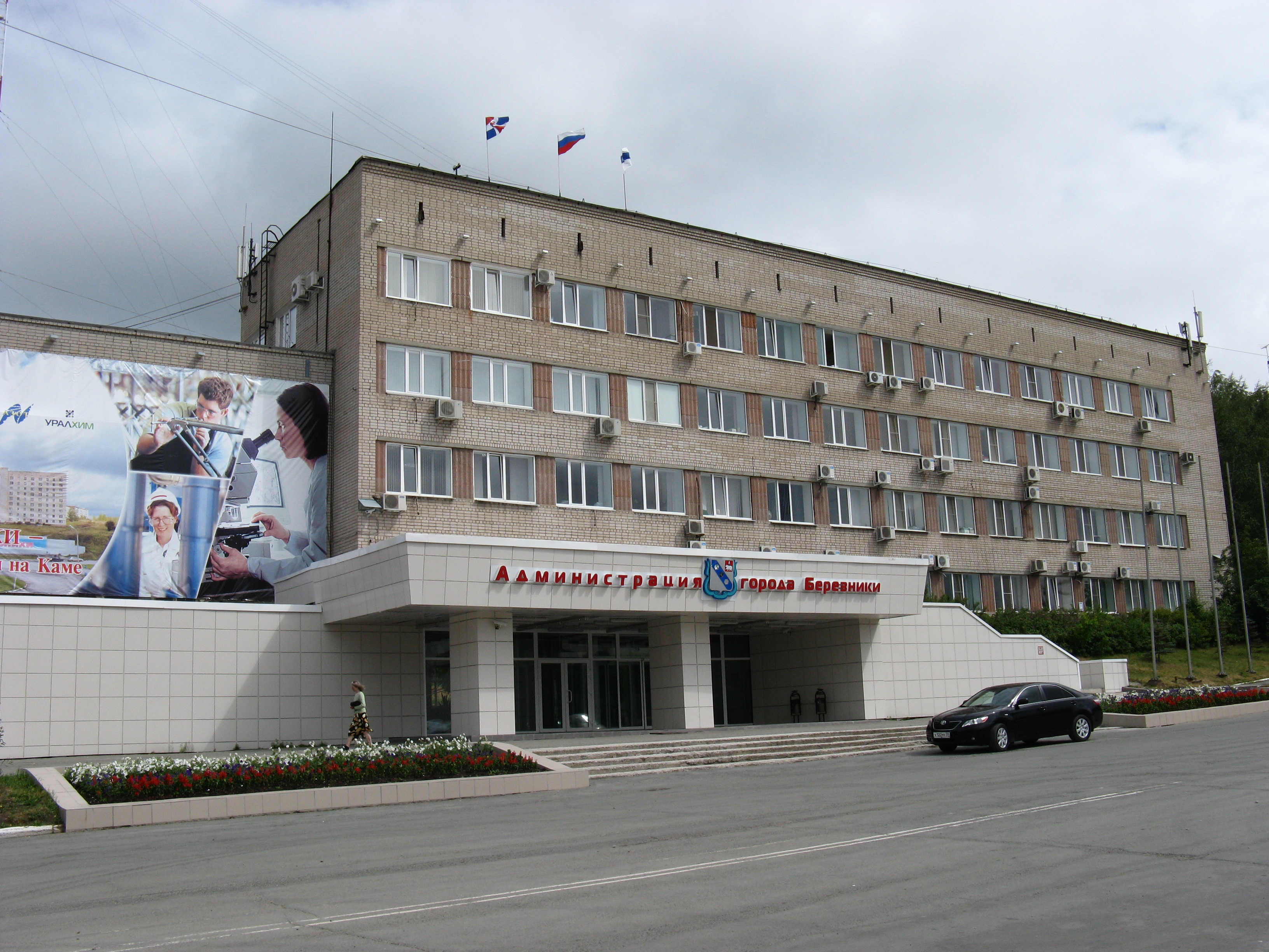 Berezniki City Administration building in Perm Krai